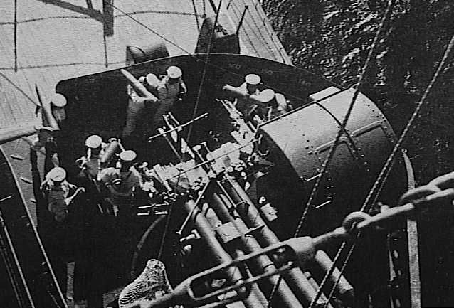 A twin-127mm dual purpose gun mount on board the Japanese battleship Nagato